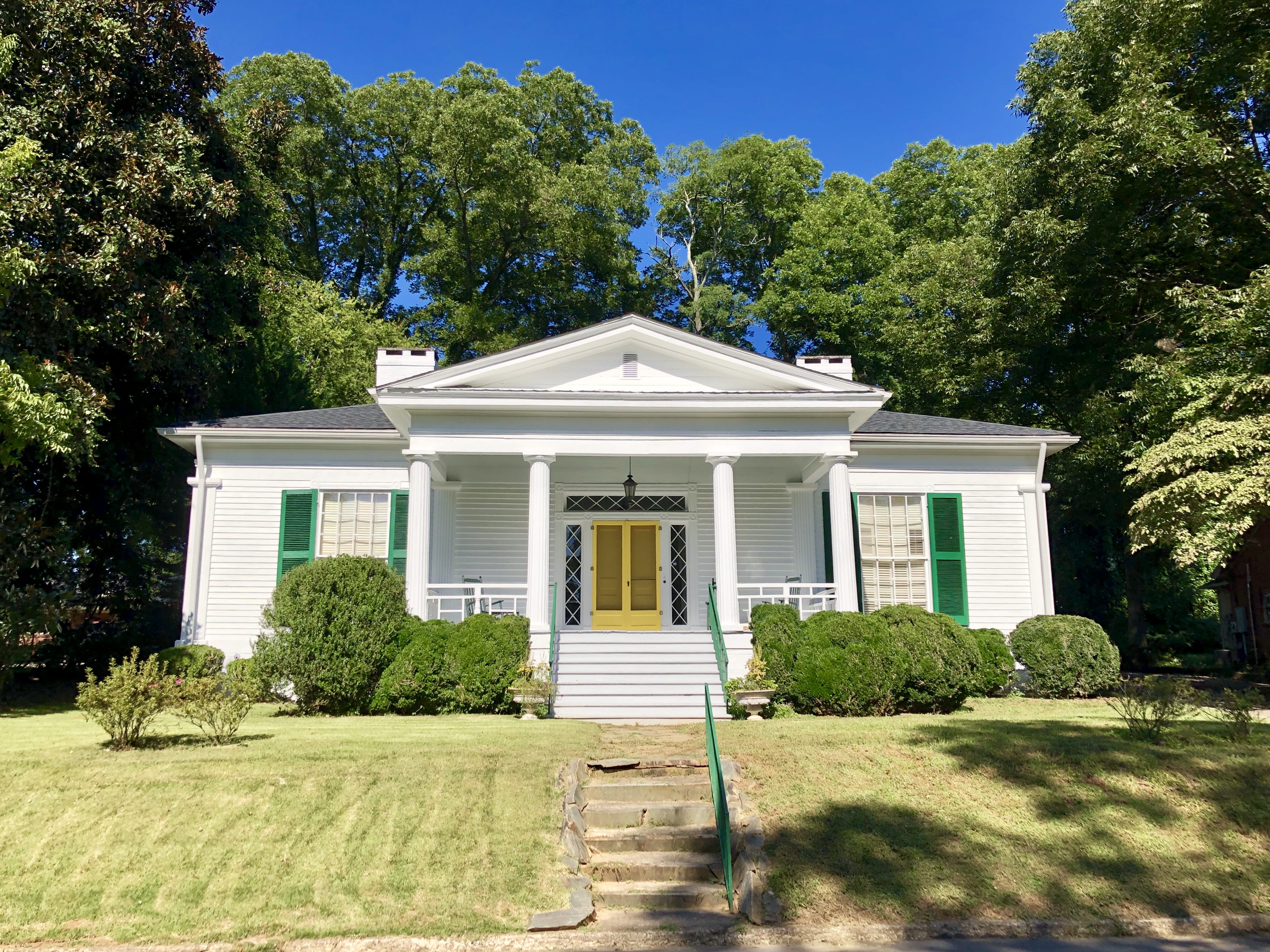 This is the Gaither House, constructed around 1840 on Anderson Street in Morganton, North Carolina. It was listed on the National Register of Historic Places in 1976.